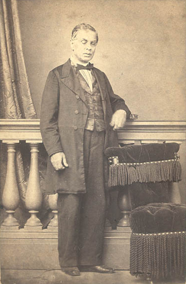 António Feliciano de Castilho (1800-1875), aged 50.